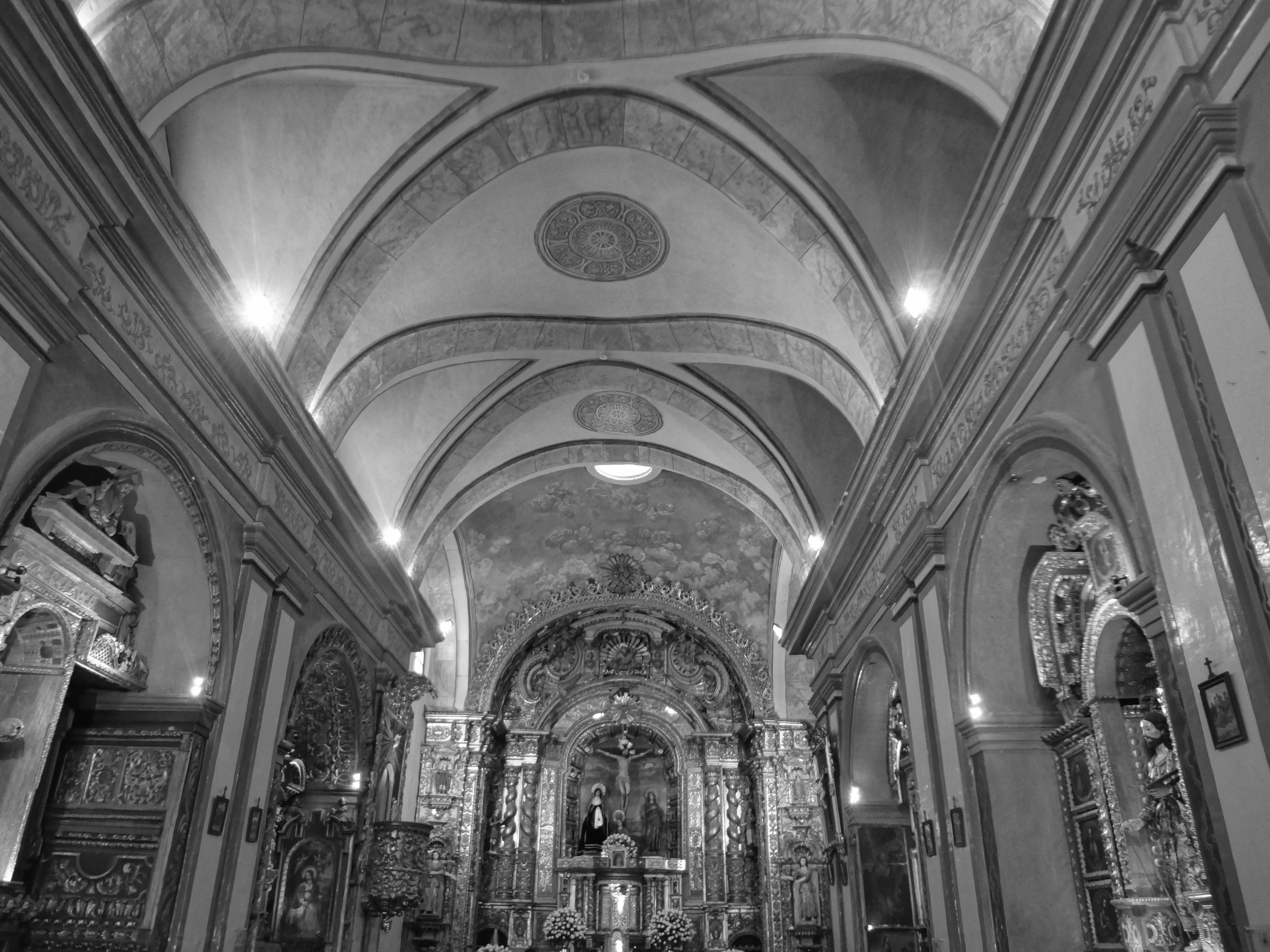 Capilla de Cantuña, Quito UNESCO World Heritage Site El Centro Histórico de Quito Historic Center of Quito Photography by David Adam Kess